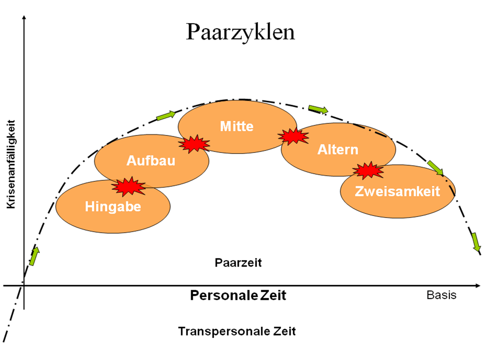 Couple cycles